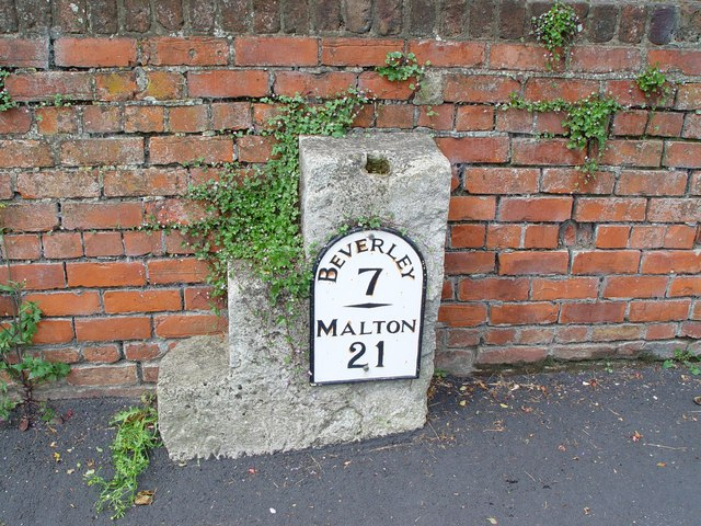 Milestone in Lund, East Riding of Yorkshire, England.